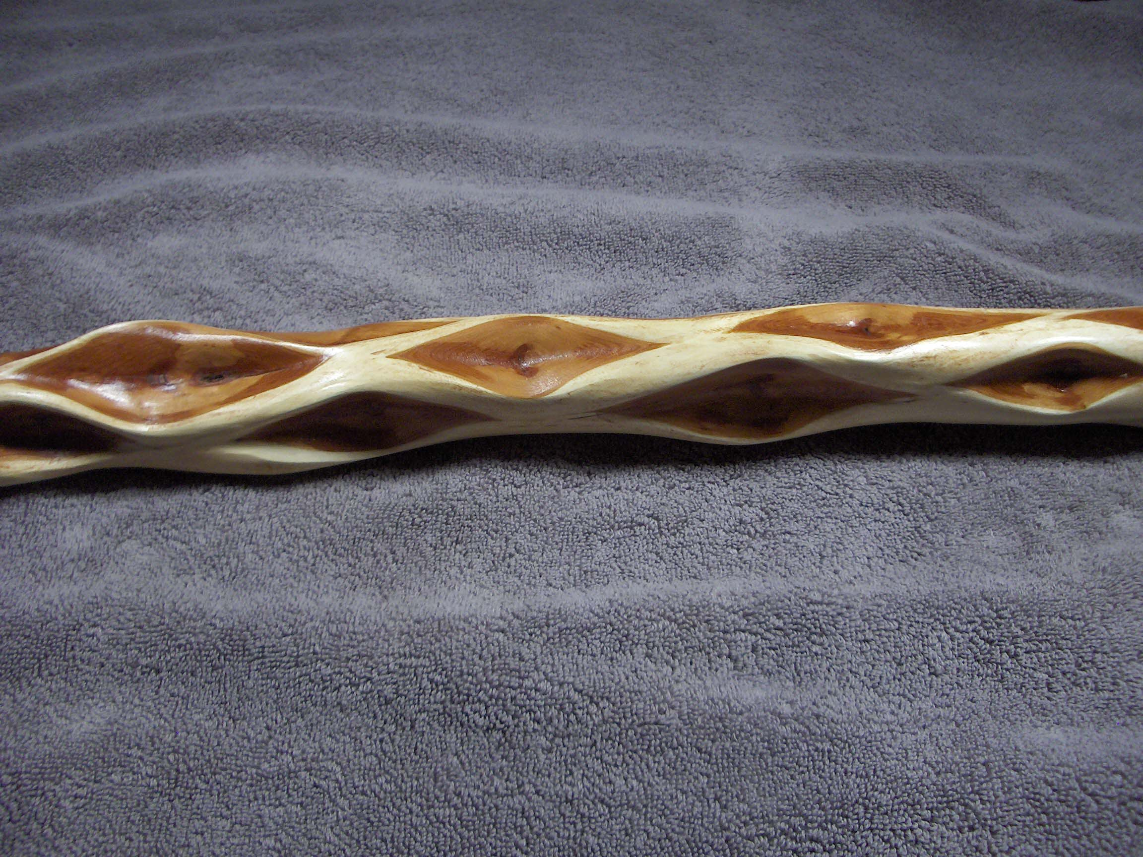 Diamond willow wood stick found at Hay River, Northwest Territories, Canada.